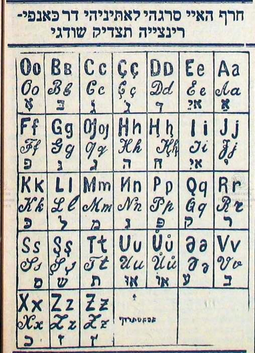 Bukhori latin alphabet (1930)